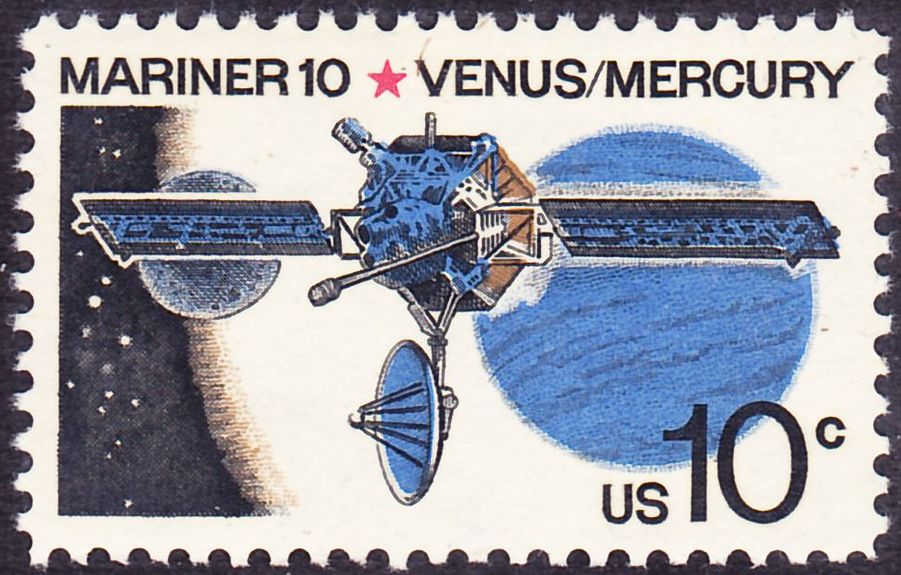 Postage stamp issued by the United States Postal Service to commemorate the flight of the Mariner 10 spacecraft to the planets Venus and Mercury.